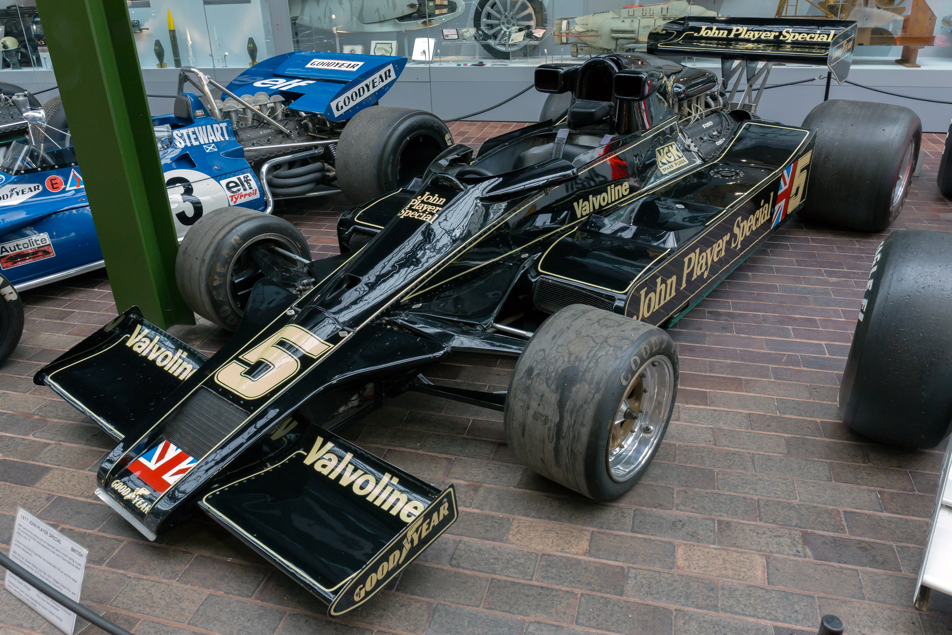 1977 Lotus 78